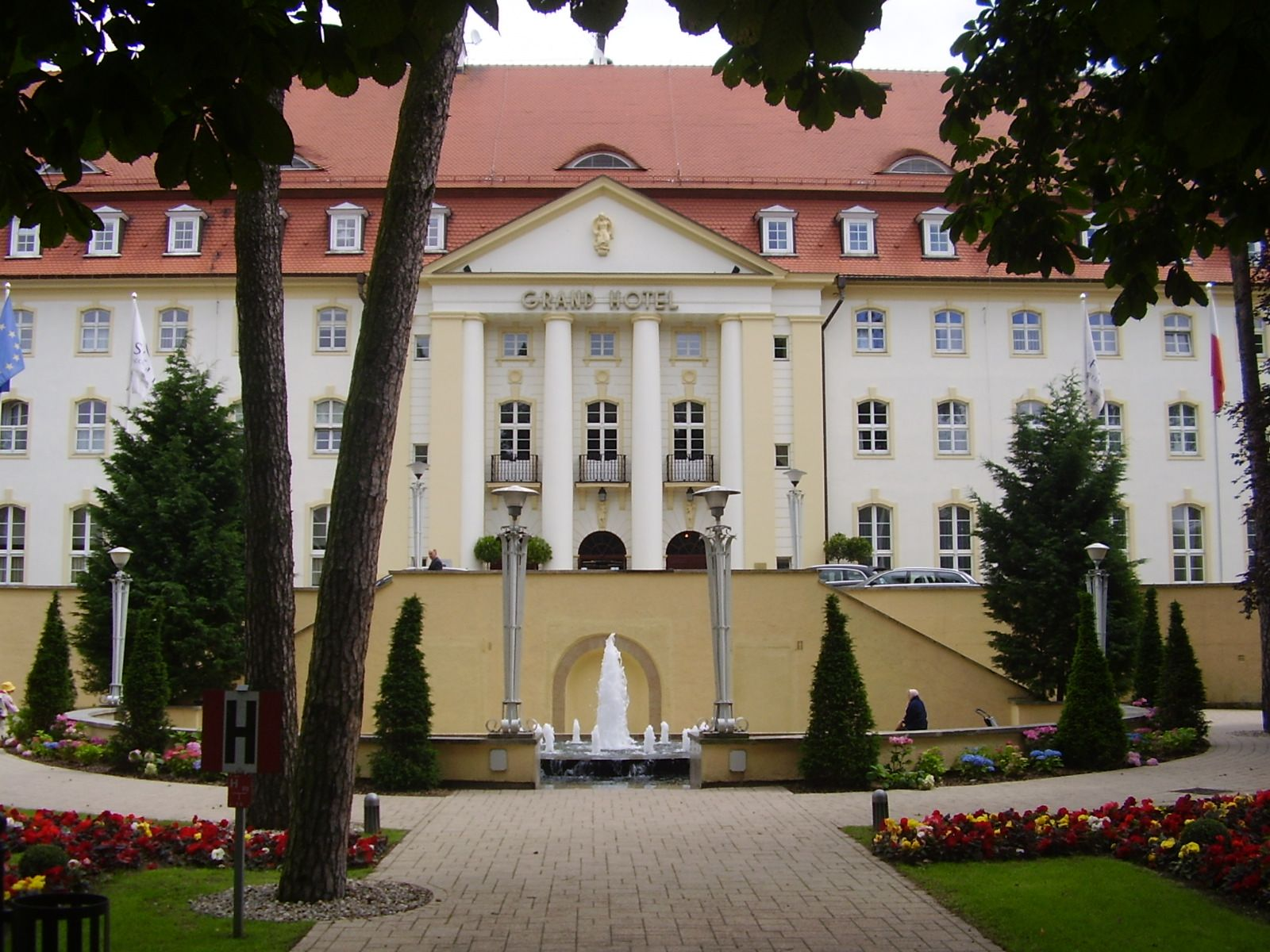 Hotel Grand w Sopocie